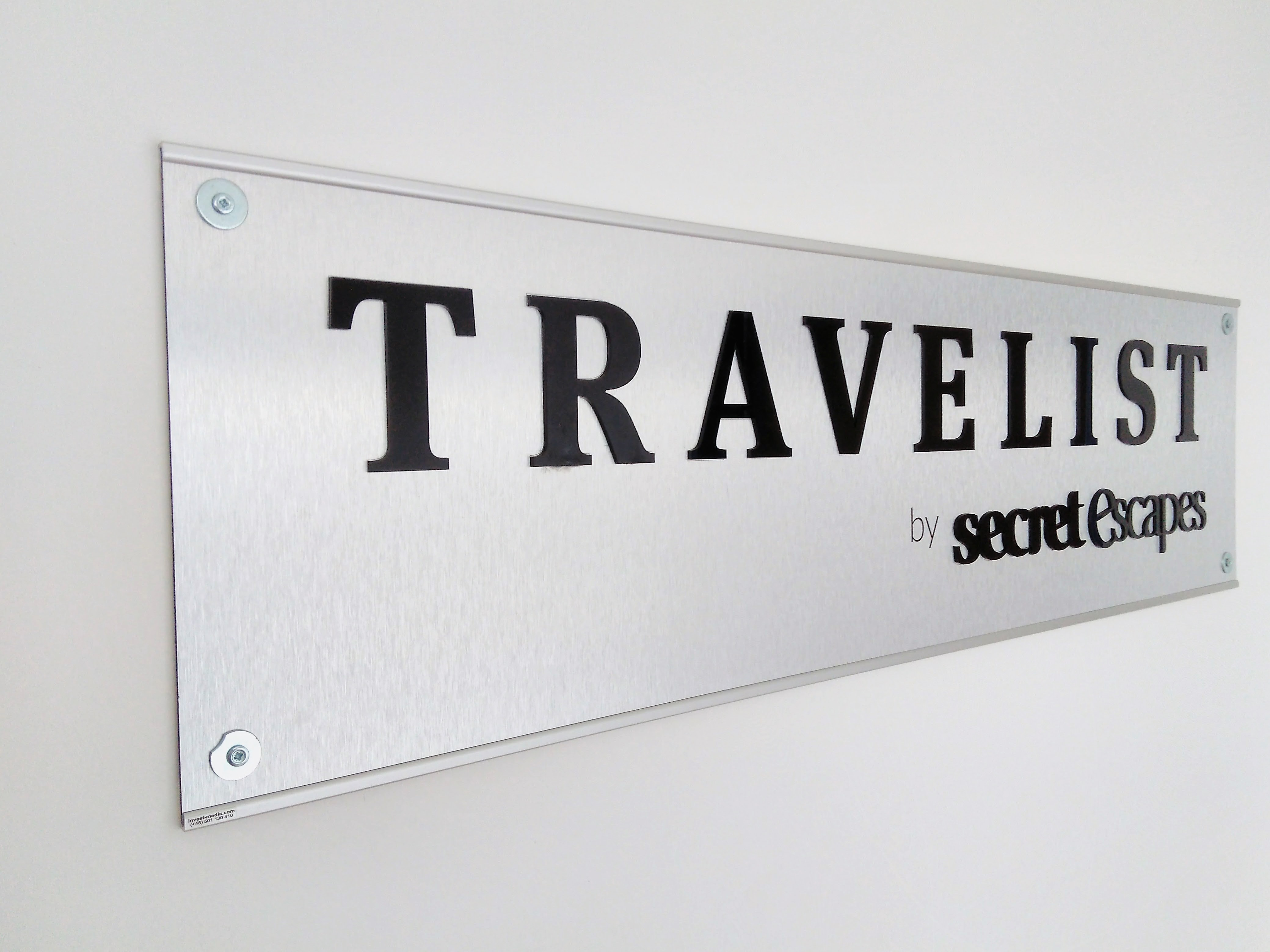 Photo of Travelist by Secret Escapes Logo